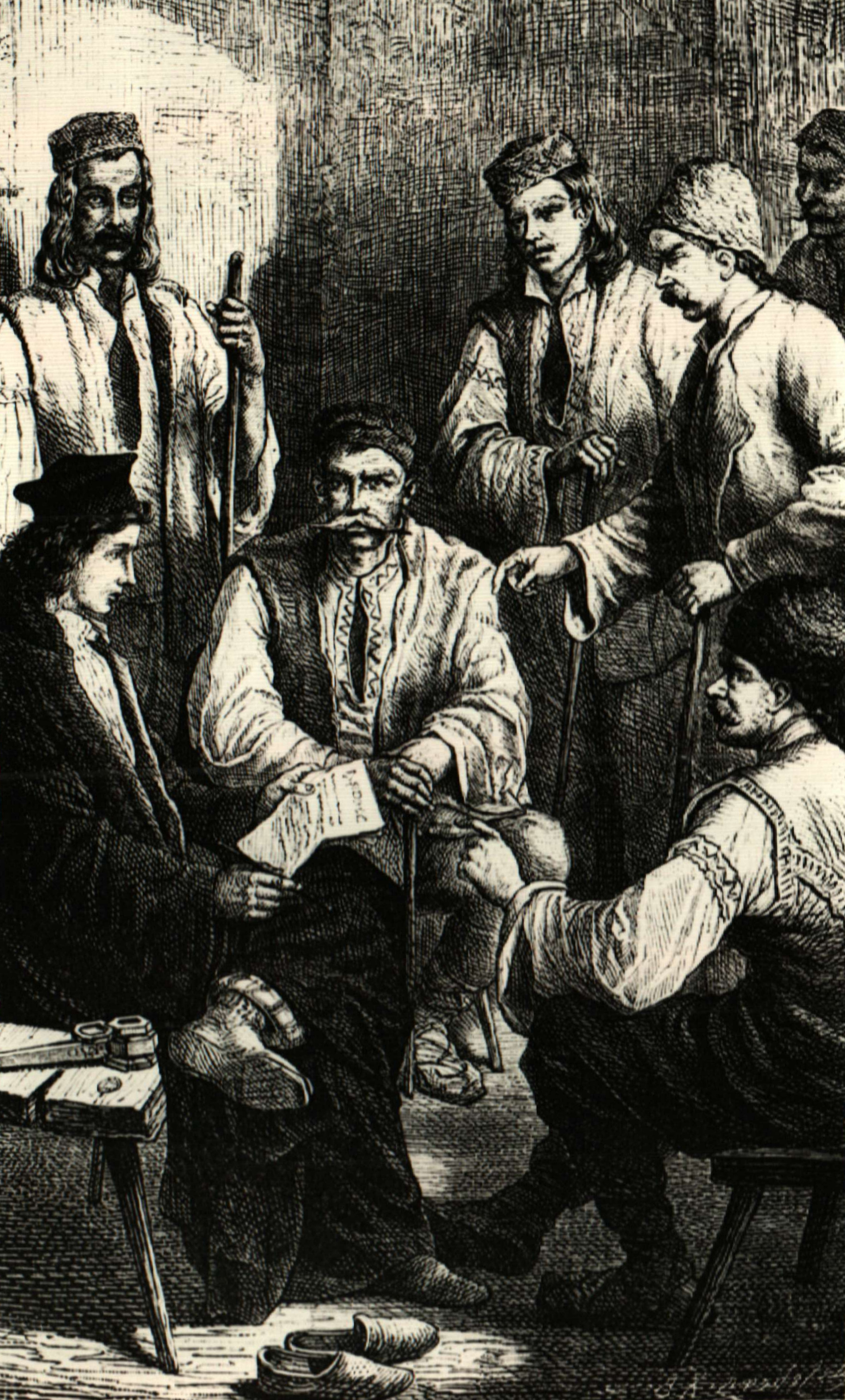 National costume of Bulgaria. Engraving of Felix Kanitz